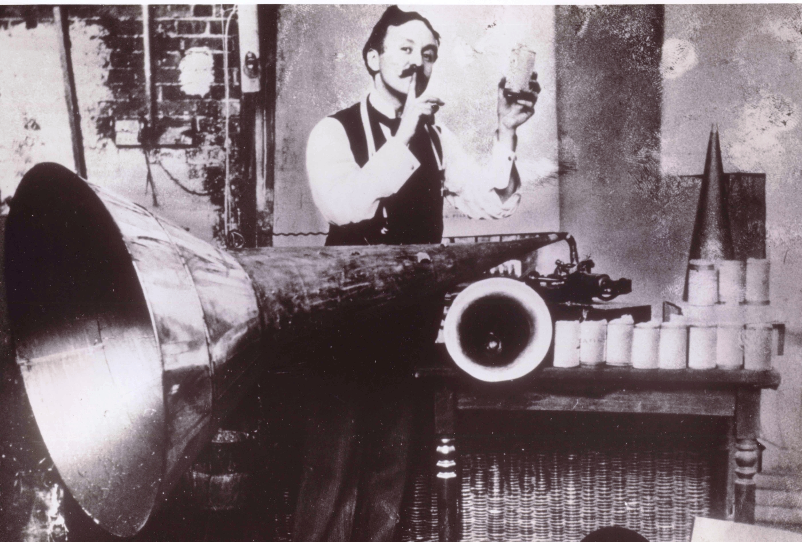 Lionel Mapleson librarian from New York